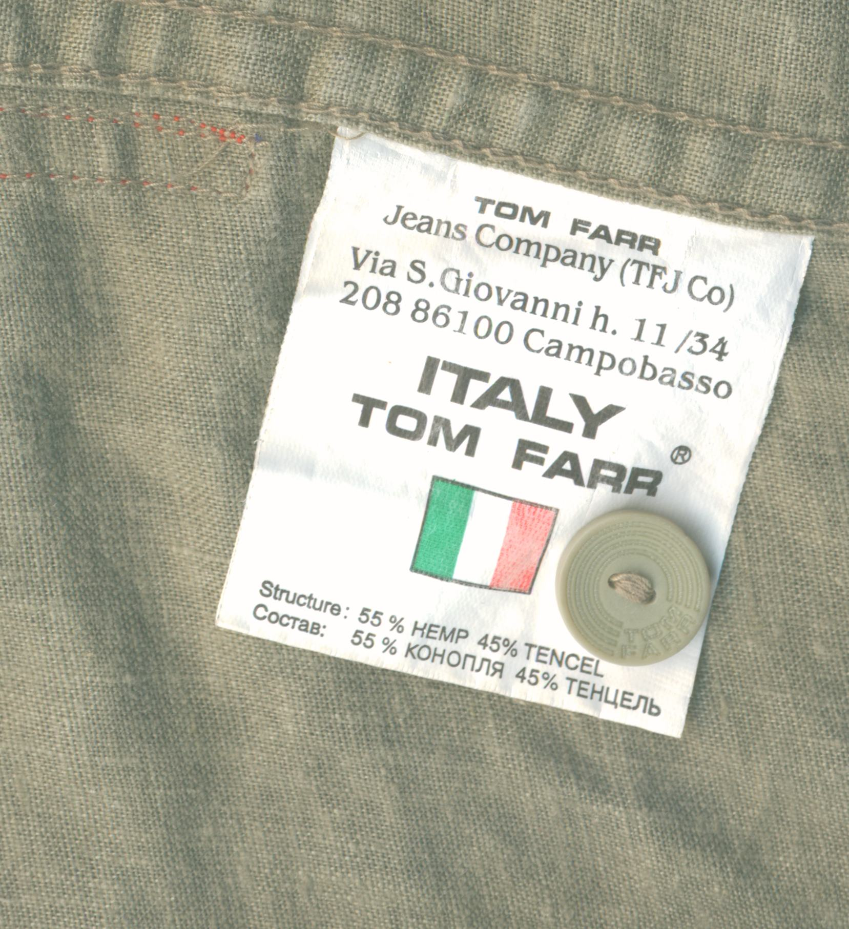 The label of a coat with lyocell. Scanned by me.